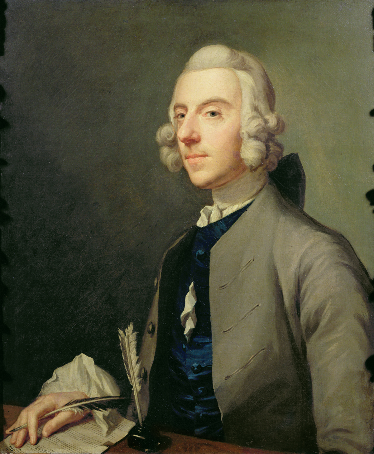 Depicted person: Michael Arne, son of Thomas Augustine Arne and Cecilia Young